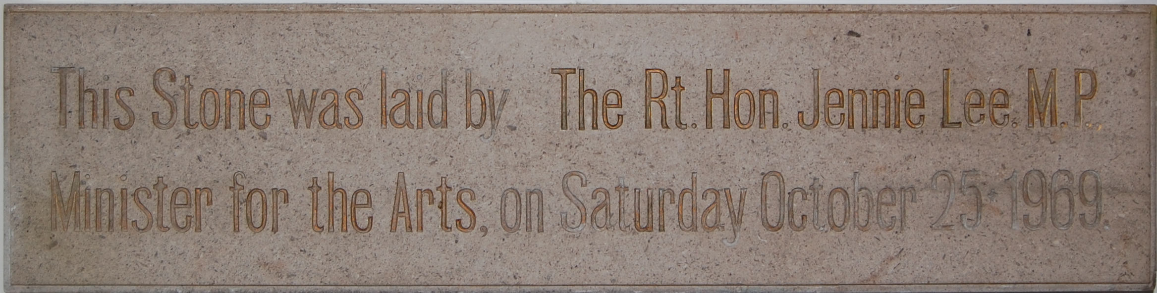 Foundation (upper) and opening plaques at Birmingham Repertory Theatre, England. The upper plaque reads "This theatre was opened by Her Royal Highness The Princess Margaret Countess of Snowdon October 20+1971" The lower plaque reads "This stone was laid by The Rt. Hon. Jennie Lee M.P. Minister for the Arts, on Saturday October 25 1969."